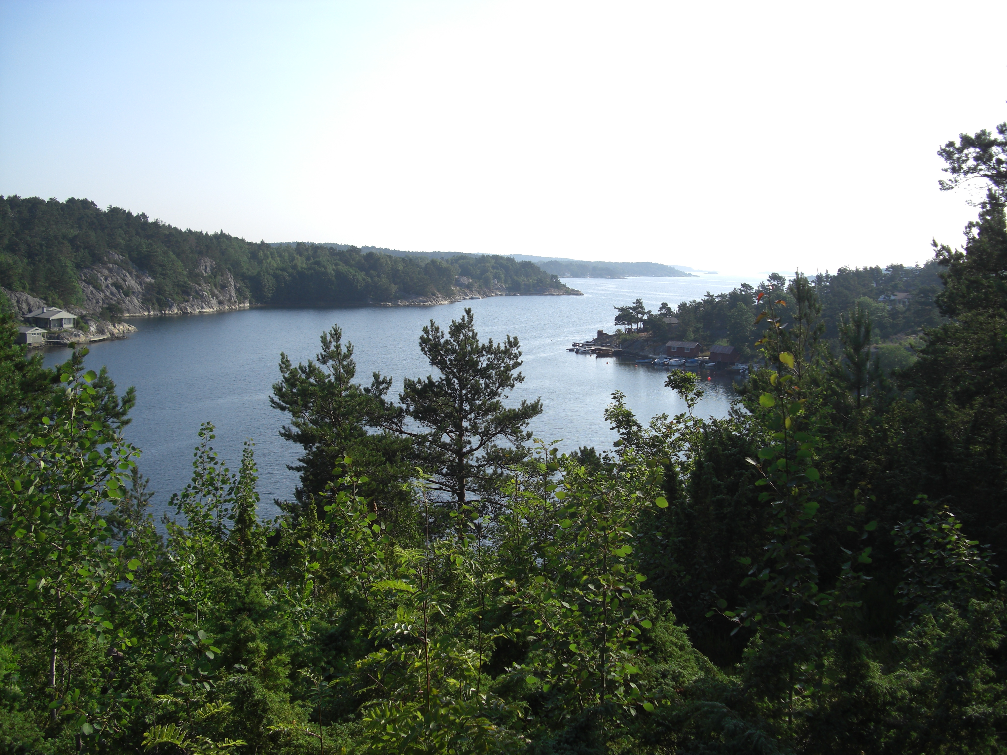 Bufjorden